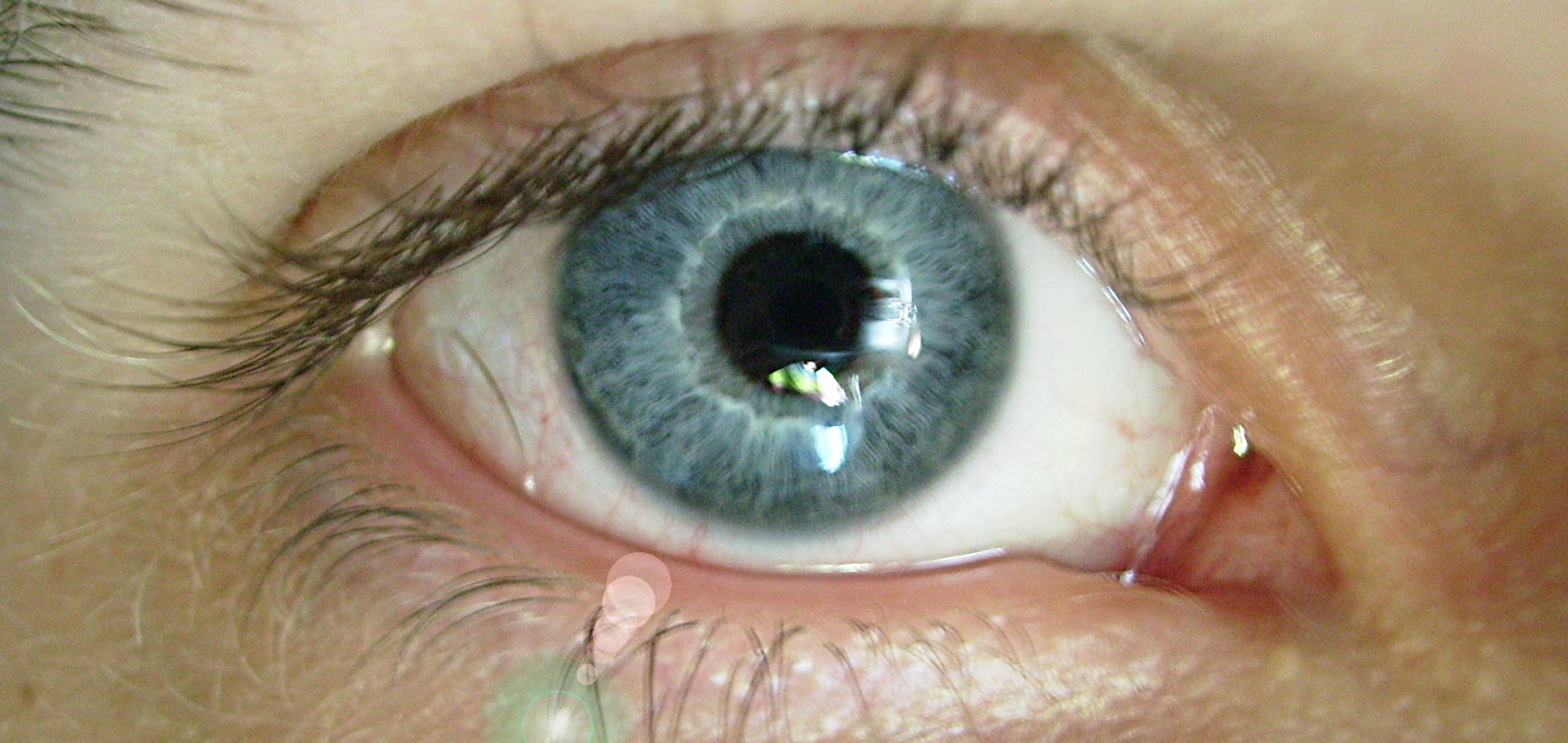 Eye photography